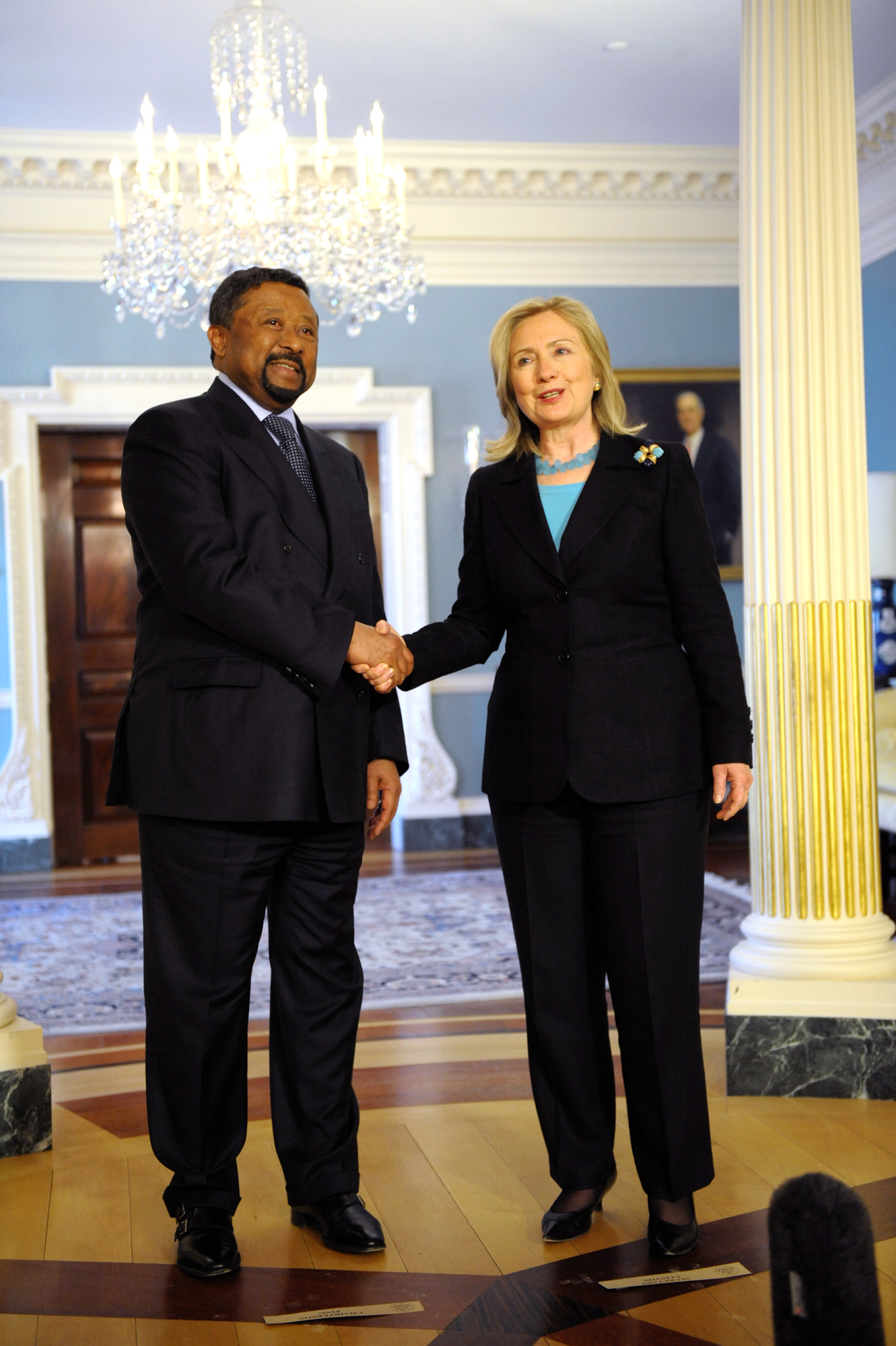 U.S. Secretary of State Hillary Rodham Clinton and African Union Commission Chairperson Jean Ping shake hands after their bilateral meeting, at the U.S. Department of State in Washington, D.C., on April 21, 2011. [State Department photo/ Public Domain]